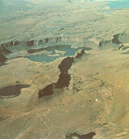 Aerial view of Dry Falls